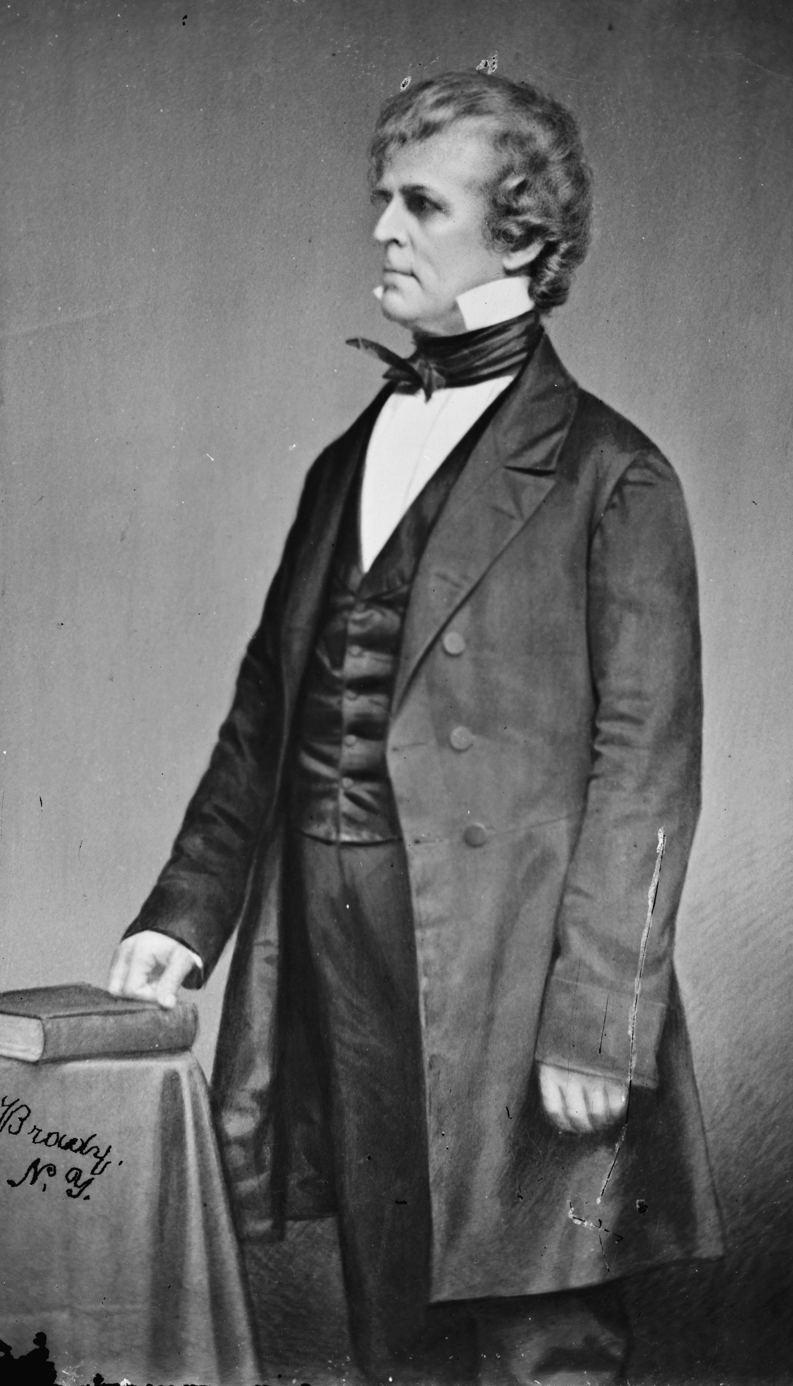 Isaac Toucey. Library of Congress description: "Hon. Isaac Toucey of Conn"